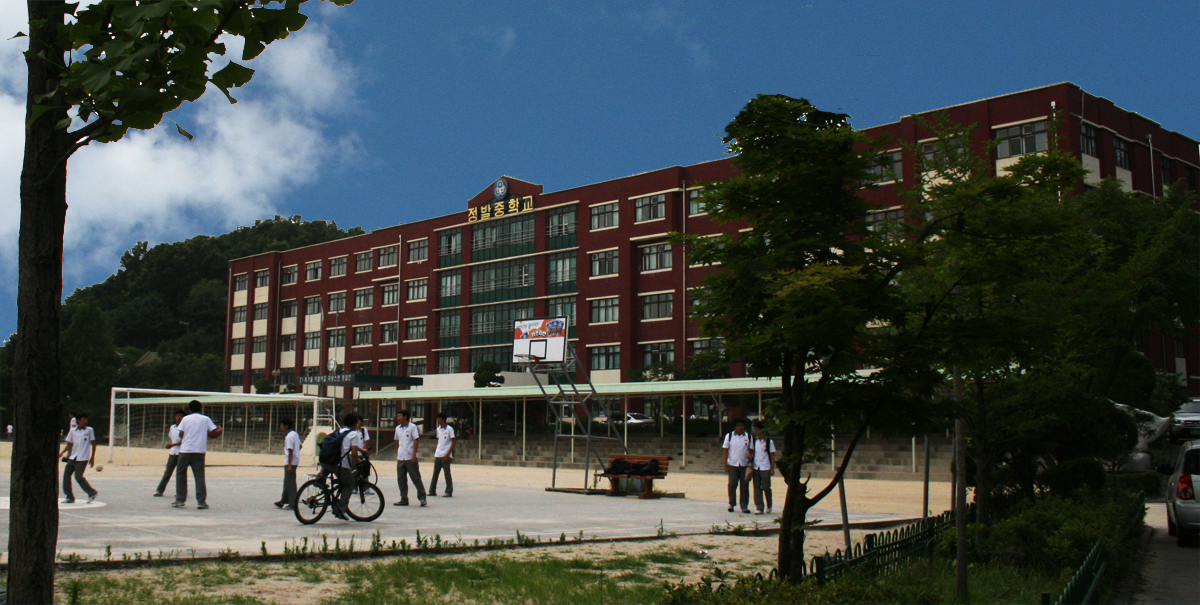 Jungball Middle School (정발중학교) in Ilsandong-gu, Goyangsi, South Korea